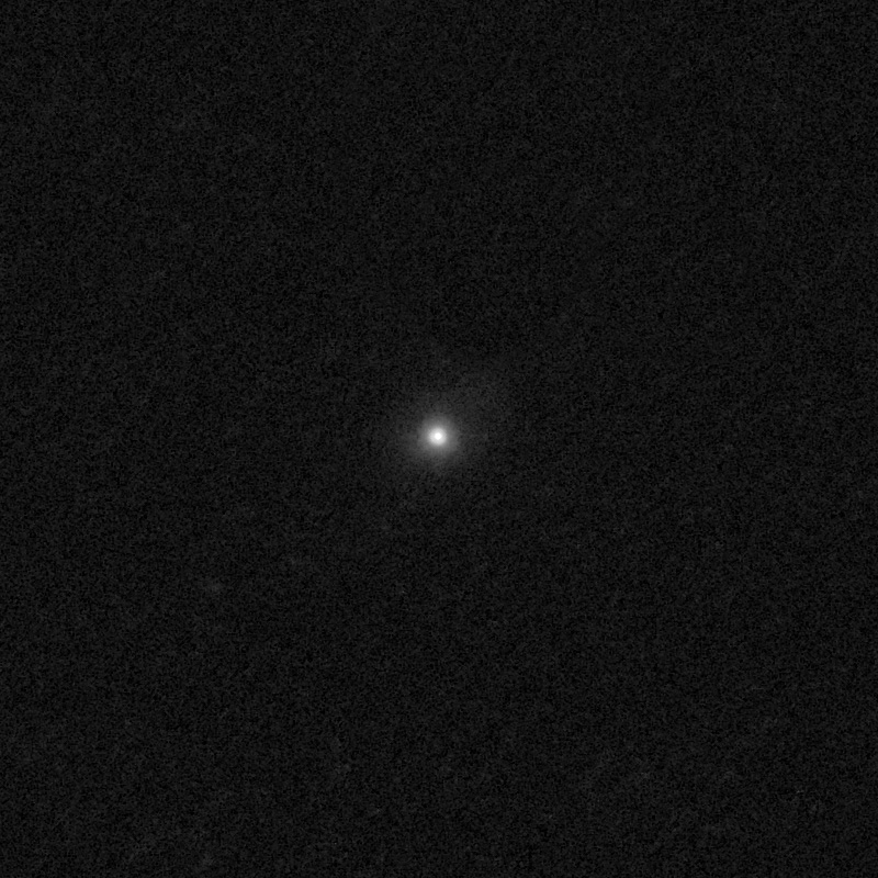 This NASA/ESA Hubble Space Telescope image of the galaxy J2140+1209 shows it is undergoing a firestorm of star birth, as shown by its bright white cores. This star-making frenzy was ignited by mergers with other galaxies. The odd shape of the galaxy is telltale evidence of a close encounters. The new Hubble Wide Field Camera 3 observations of this and eleven other galaxies undergoing the same process suggest that energy from the star-birthing frenzies created powerful winds that are blowing out the gas, meaning it is not available to form future generations of stars. This activity occurred when the Universe was half its current age of 13.7 billion years. The gas-poor galaxies may eventually become so-called red and dead galaxies, composed only of aging stars. This Hubble false-colour image was processed to bring out important details in the galaxy. The images were taken in 2010. Links: NASA Press release Fast evolution of a galaxy Outflows from twelve merging galaxies Outflows from merging galaxy J0826+4305 Outflows from merging galaxy J0944+0930 Outflows from merging galaxy J1104+5946 Outflows from merging galaxy J1359+5137 Outflows from merging galaxy J1506+5402 Outflows from merging galaxy J1506+6131 Outflows from merging galaxy J1558+3957 Outflows from merging galaxy J1613+2834 Outflows from merging galaxy J1634+4619 Outflows from merging galaxy J1713+2817 Outflows from merging galaxy J2118+0017